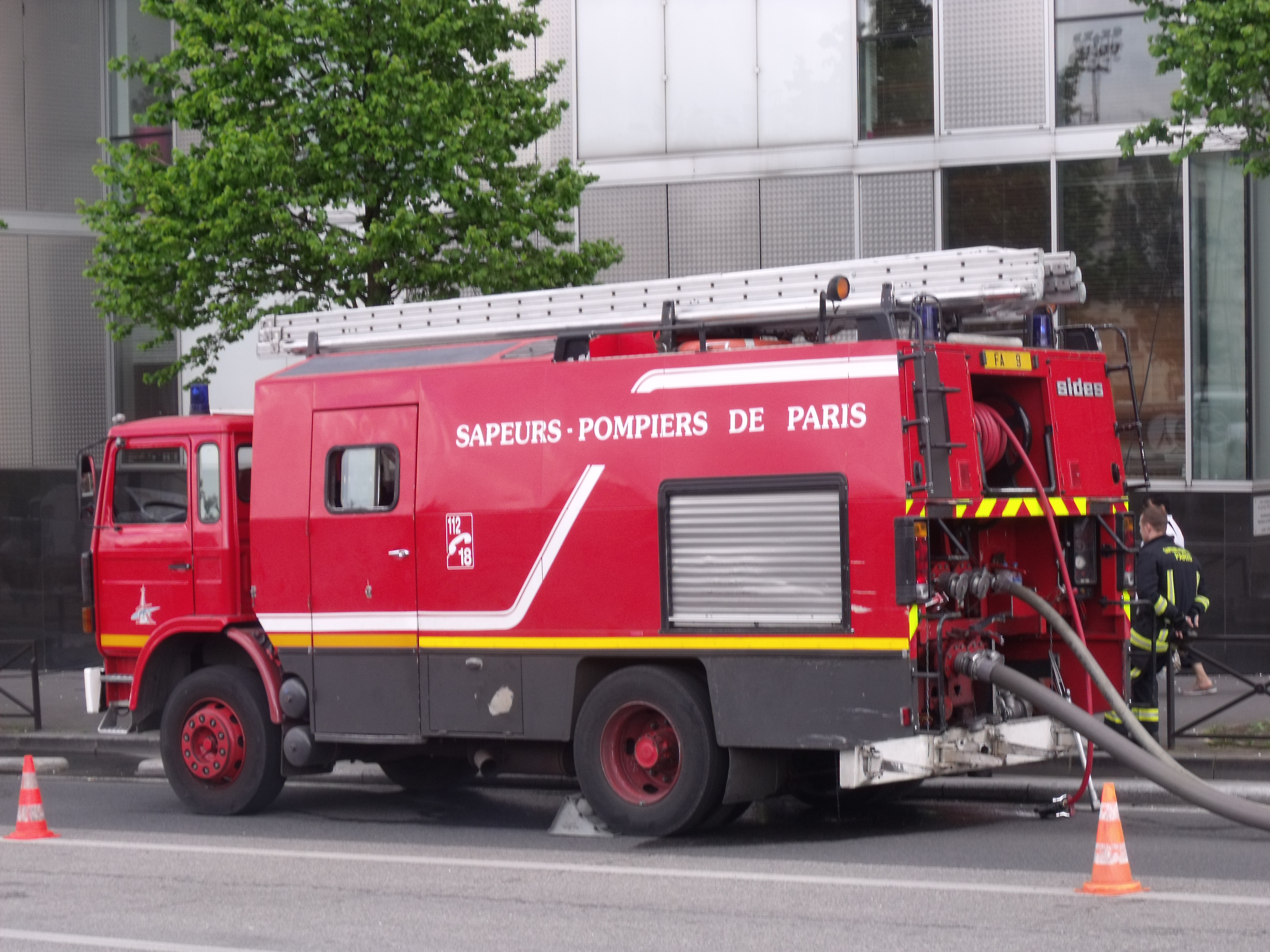 Seen here in may 2012 this heavy truck is used for fire interventions.